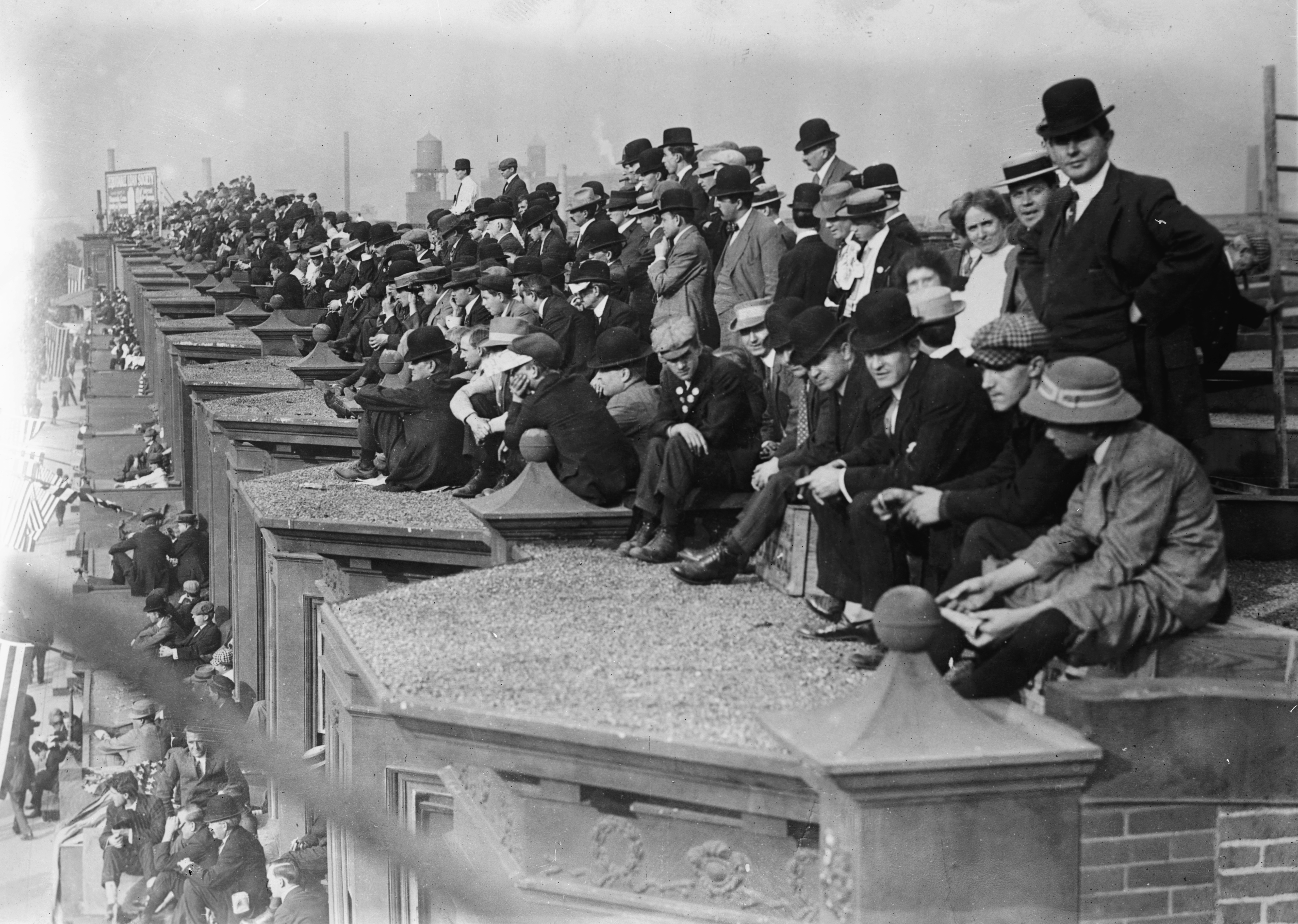 Fans watching a baseball game at Shibe Park from the rooftops of buildings across the street on North 20th street.